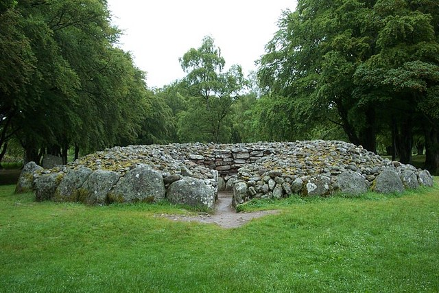 Clava Cairns - South-West Passage Cairn This cairn is almost identical to the North-East Passage Cairn and shares the same orientation such that the setting sun on the longest day would illuminate the chamber.